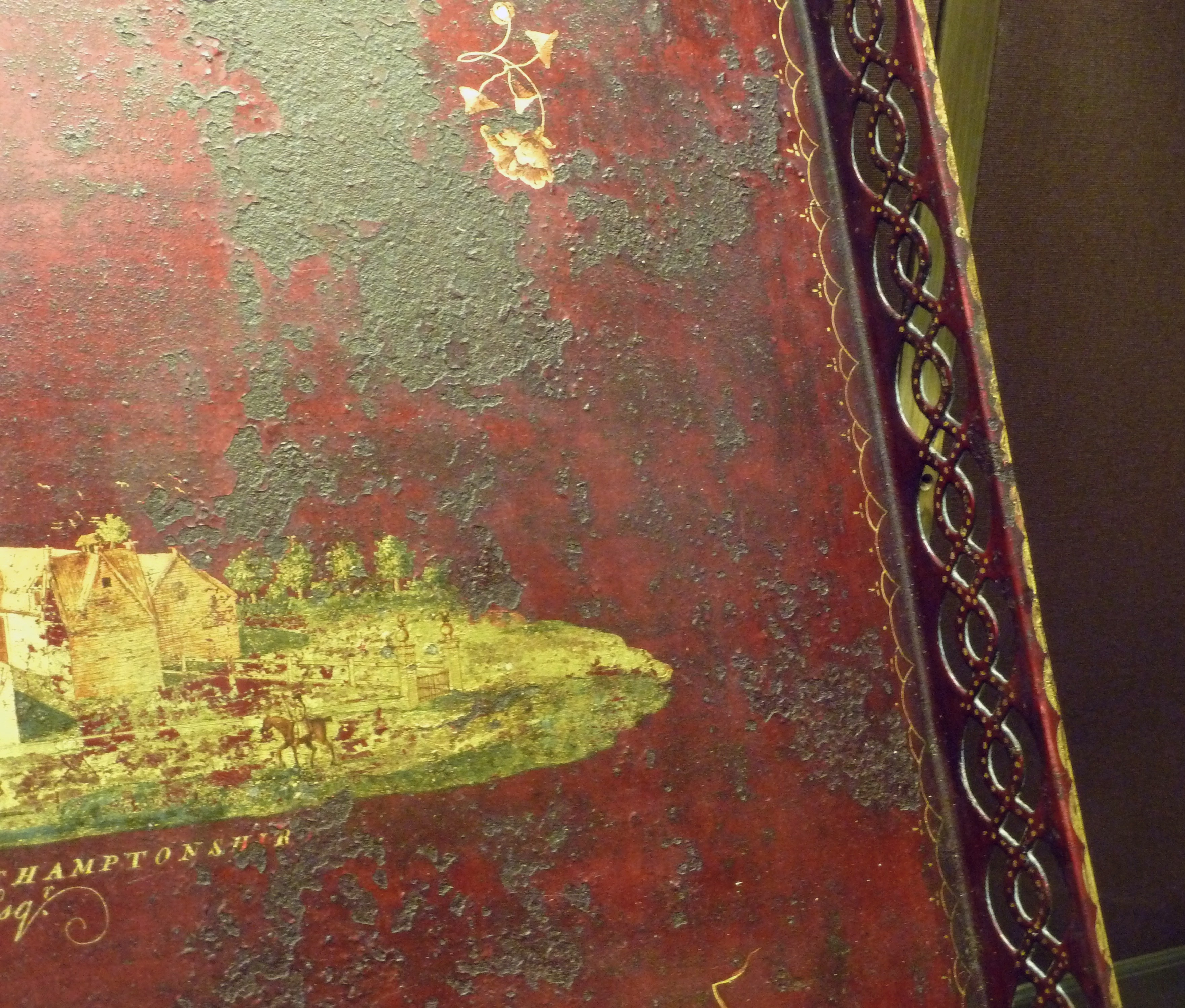 Iron tray decorated with Pontypool japan, at Cardiff Museum. The tray is japanned red, with a design in gold. Work by the Allgood family, dated 1732-1763. This design shows The Old Hall, Kelmarsh, Northamptonshire after an engraving by J. Mynde. Kelmarsh was the home of the Hanbury family, local ironmasters.